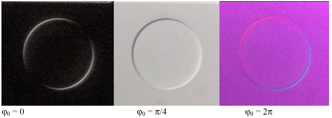 DIC images of a circular PMMA disc of 200nm height and 20 micrometer diameter. Olympus BX50 microscope, Objective 20x , 0.5NA Offset phases phi_0 of 0 degrees, 45 degrees, and 360 degrees are shown